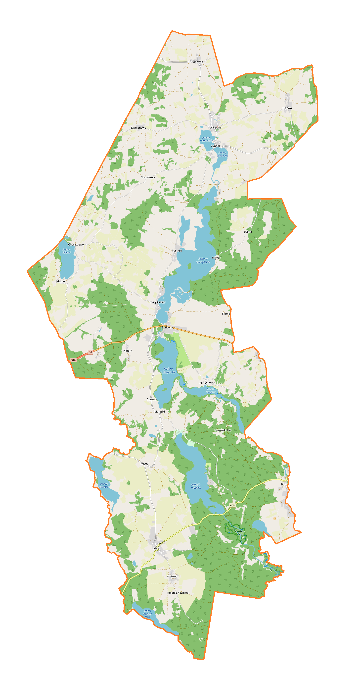 Location map